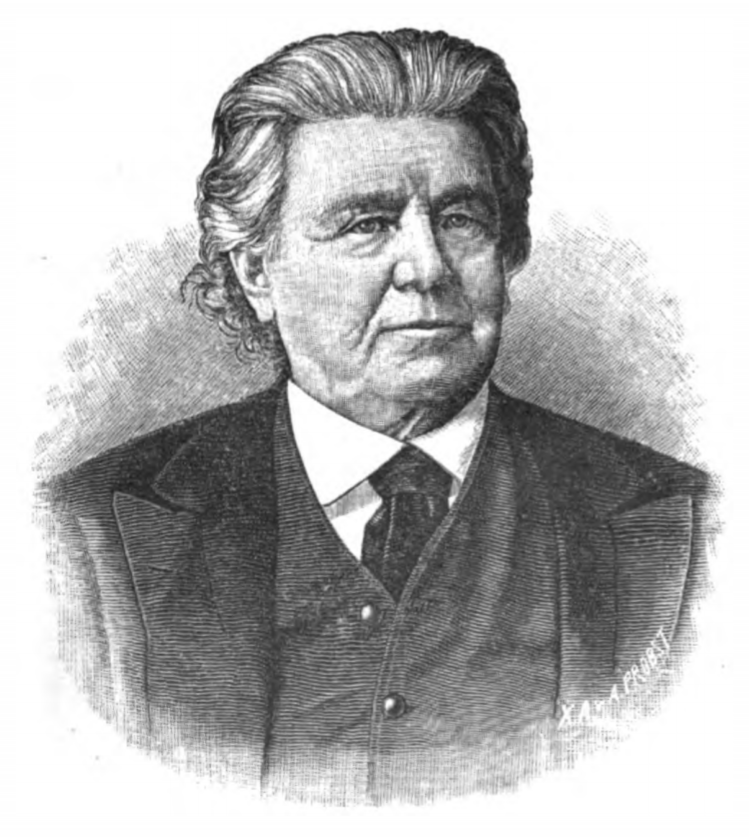 Engraving of Lorenzo Lorain Langstroth, minister, beekeeper, and "father of American Apiculture."